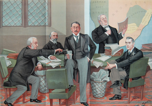 Caricature : EMPIRE MAKERS AND BREAKERS A Scene at the South Africa Committee. Left-right : "Her Majesty's Attorney-General" (Richard Webster) Henry Du Pre Labouchere Cecil Rhodes "The Squire of Malwood" (William Harcourt) Joseph Chamberlain